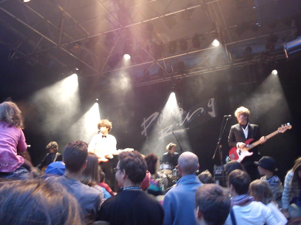 Pegasus playing at "Pod'Ring", a festival in the Old Town of Biel, 2010.